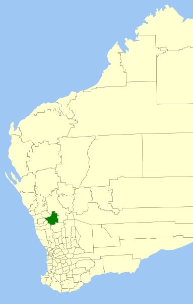 Description=Location of the Local Government Area in Western Australia